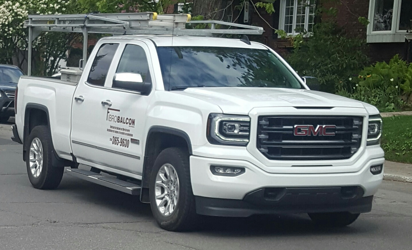 2016-present GMC Sierra 1500 photographed in Montréal , Québec, Canada.